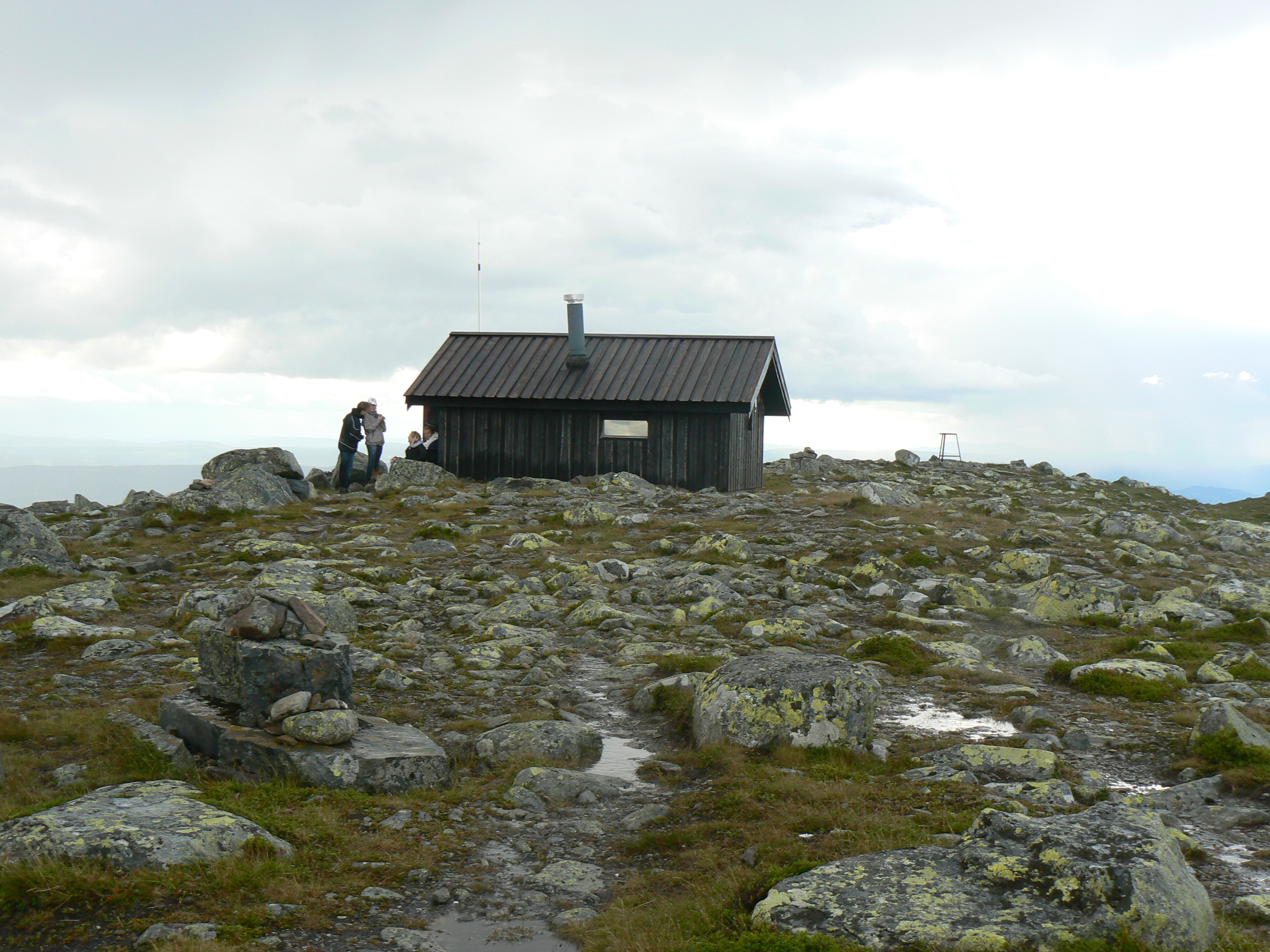 Atop pf Mount Nevelfjellet in Norway. A little rest house, "Nevelstuen", for passing walkers.